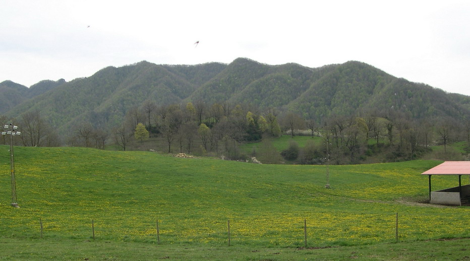 Serra de Curull as seen from Vidrà (Osona, Catalonia).